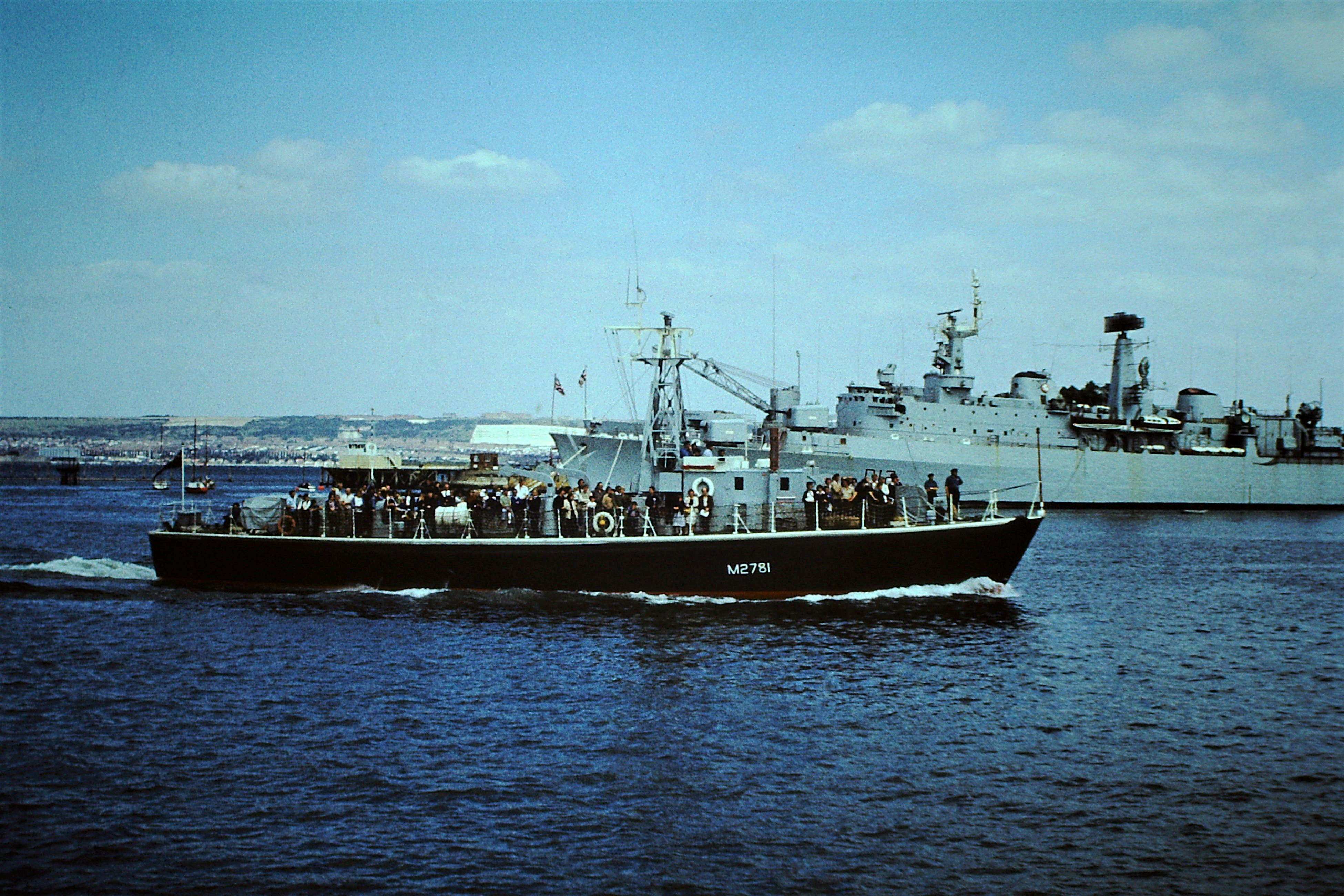 Type 1, batch 3 "Ham" Class Inshore Minesweeper "HMS Portisham", 120 tons, launched 1955, commissioned 1956. At the Portsmouth Navy Day, 08/80. Scanned slide.